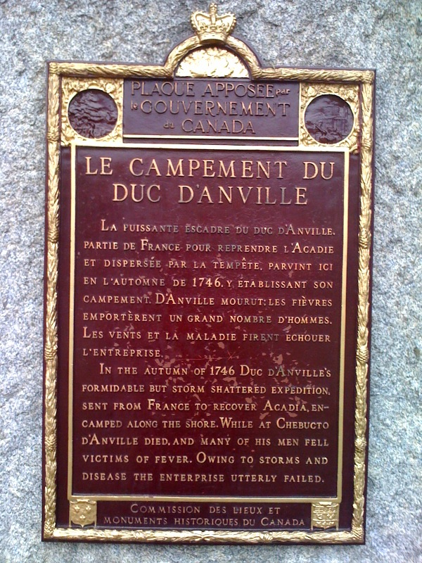 Duc d'Anville Monument, Halifax, Nova Scotia